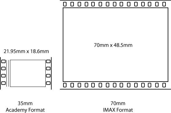 Conversion to PNG of: An illustrative comparison between 35mm and 70mm IMAX negatives. Created by me; no copyright.